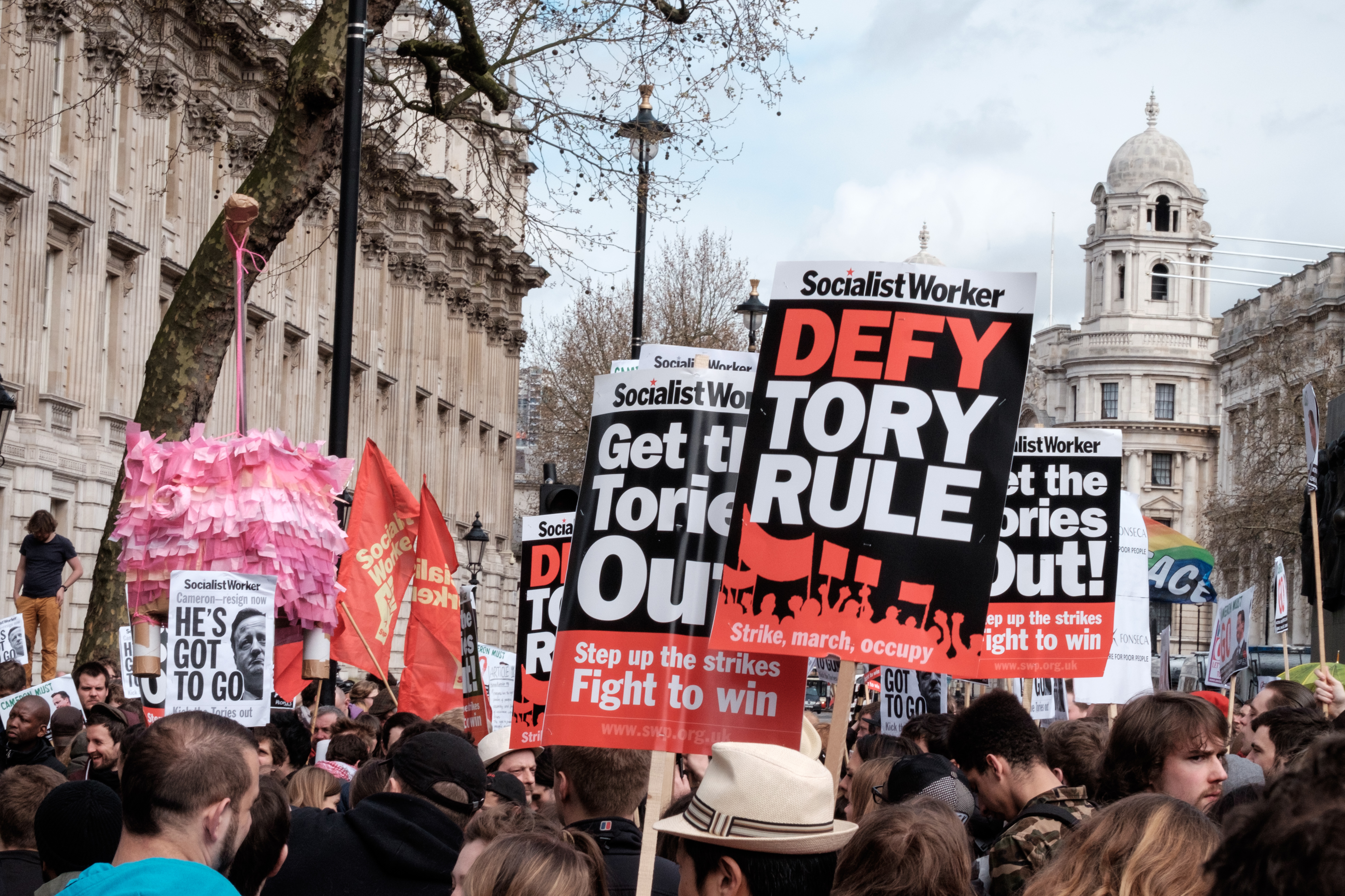 Protesters angry at David Cameron over his alleged tax affairs protested outside Downing Street then marched up Whitehall, along the Strand and up to Holborn.